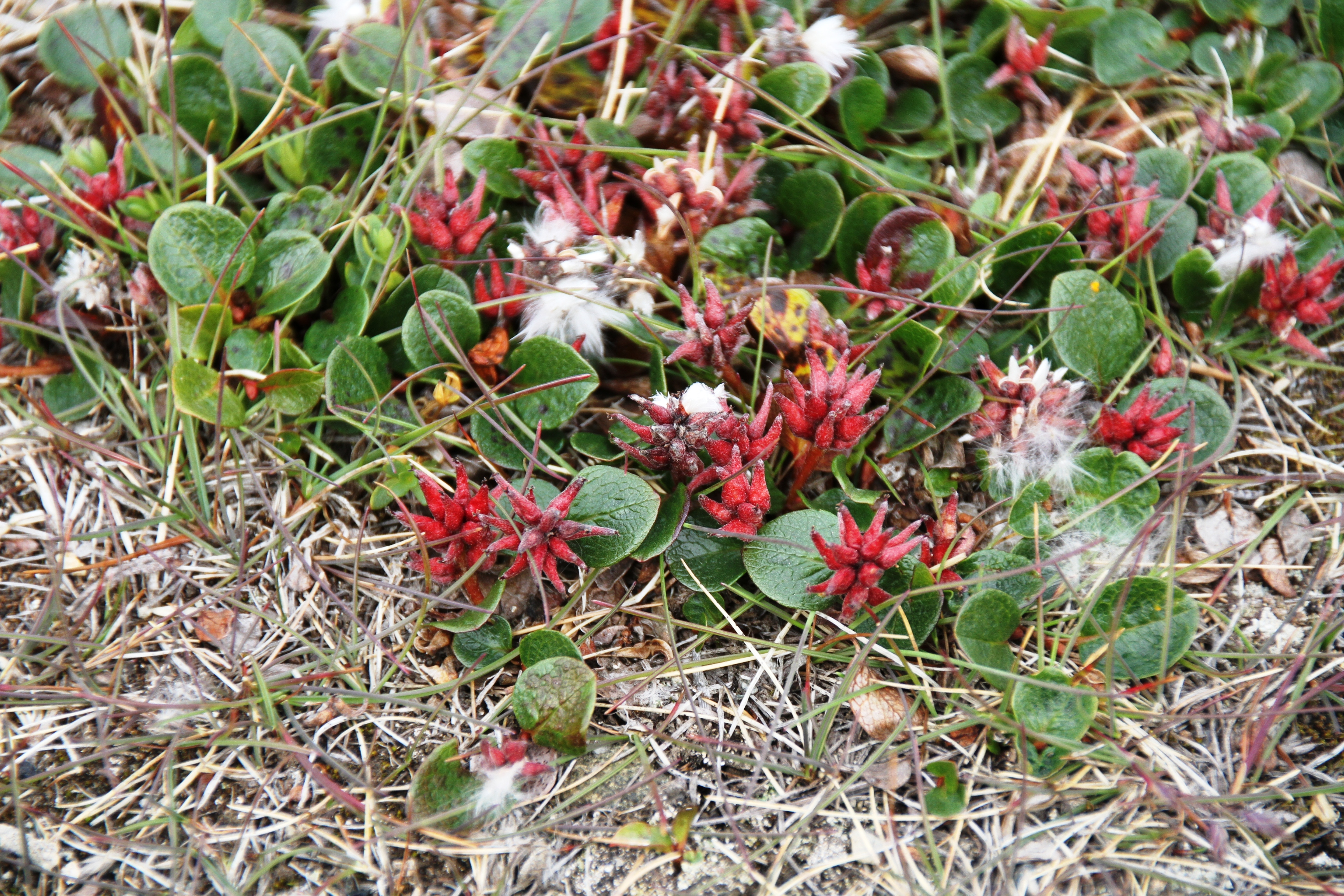 Salix polaris (norwegian: polarvier) observed close to Longyearbyen, central Spitsbergen (Svalbard).